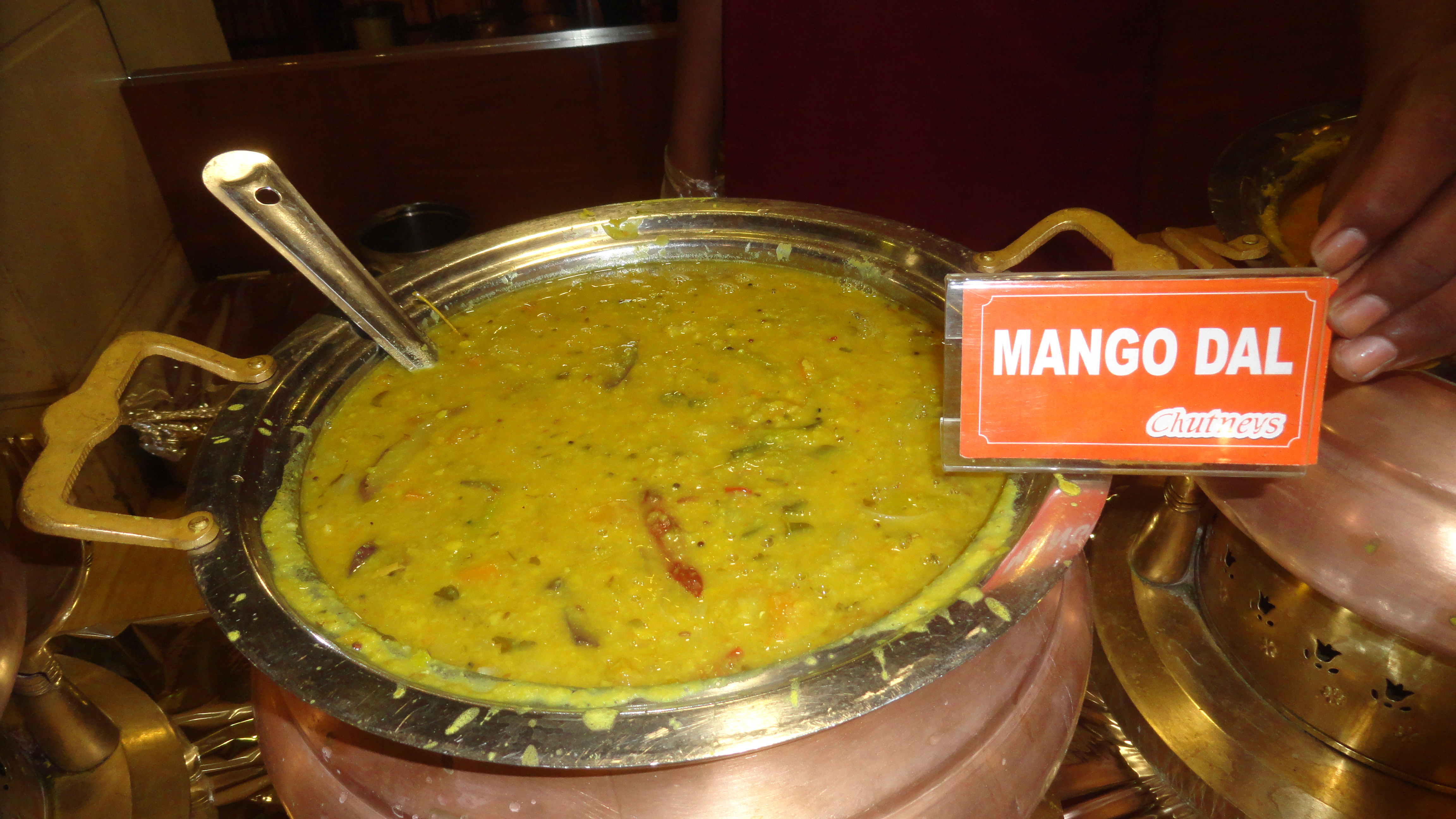 Mango dal curry is very tasteful dish of south Indian